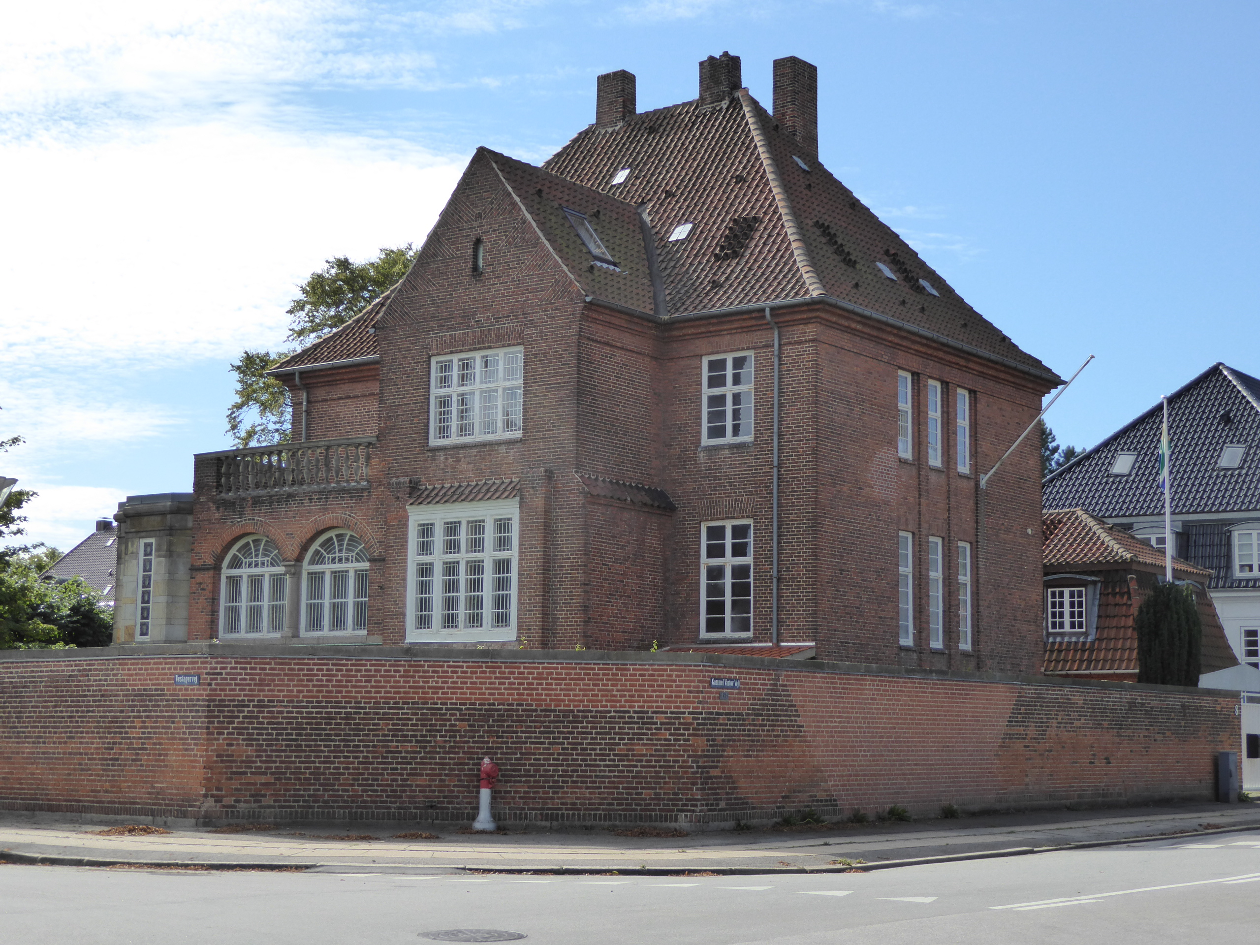 The embassy of South Africa at Gammel Vartov Vej 8 in Ryvangskvarteret, Copenhagen, Denmark